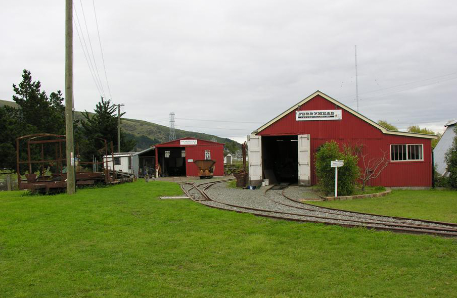 The Ferrymead Two Foot Railway's workshops. Construction shed left and engine / smoko shed right. Track in between them is the mainline. Ex- Fijian bogie carriage at far left.